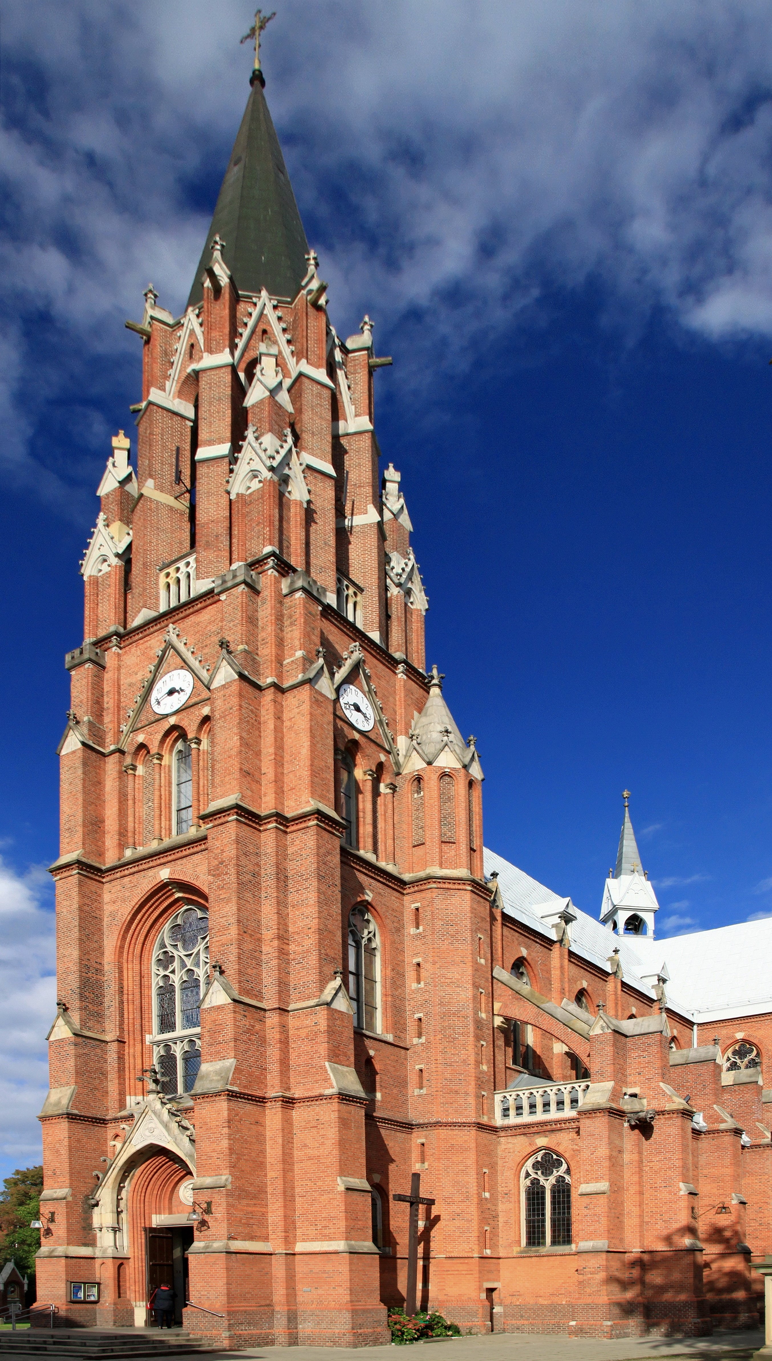 Racibórz, Church of John the Baptist, build in 1836